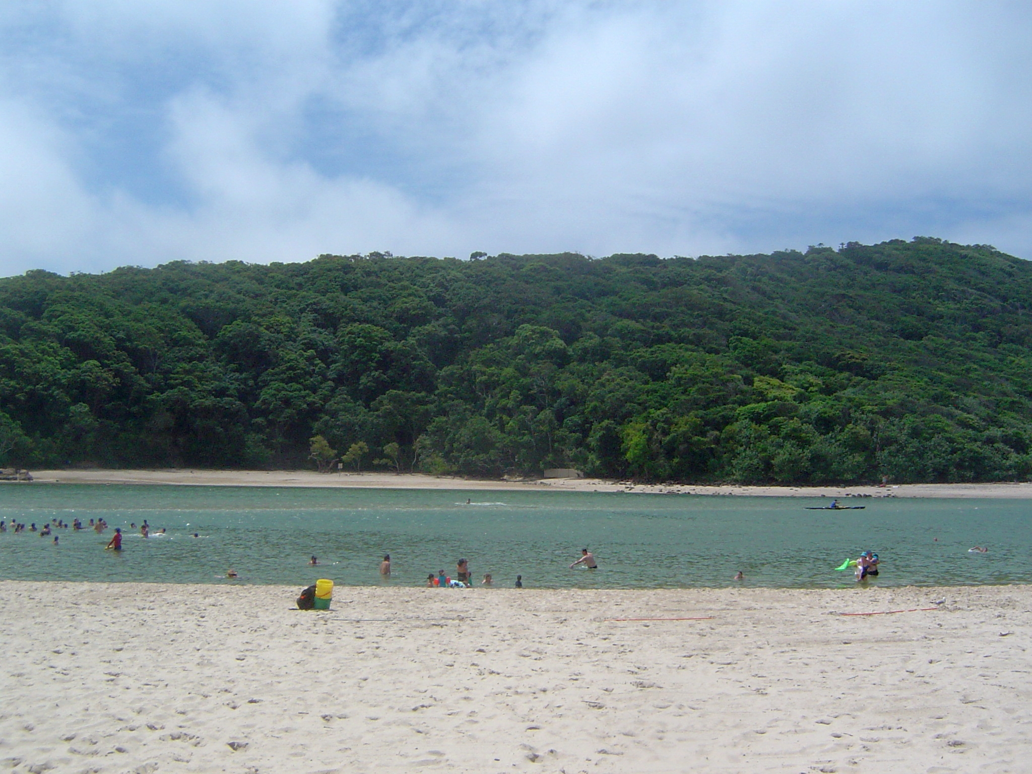 Photo of Burleigh Headland and Tallebudgera Creek